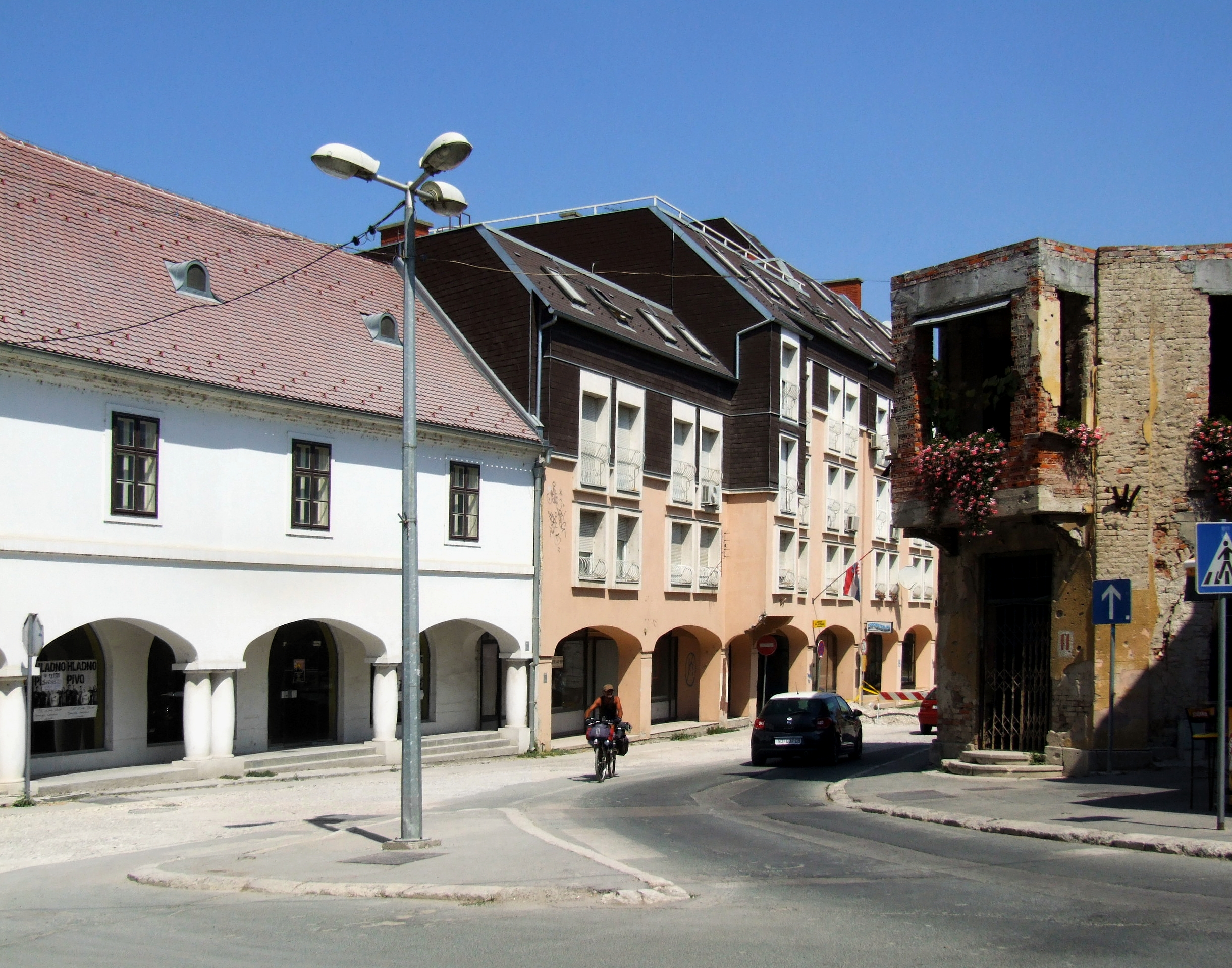 Buildings in Vukovar, Croatia